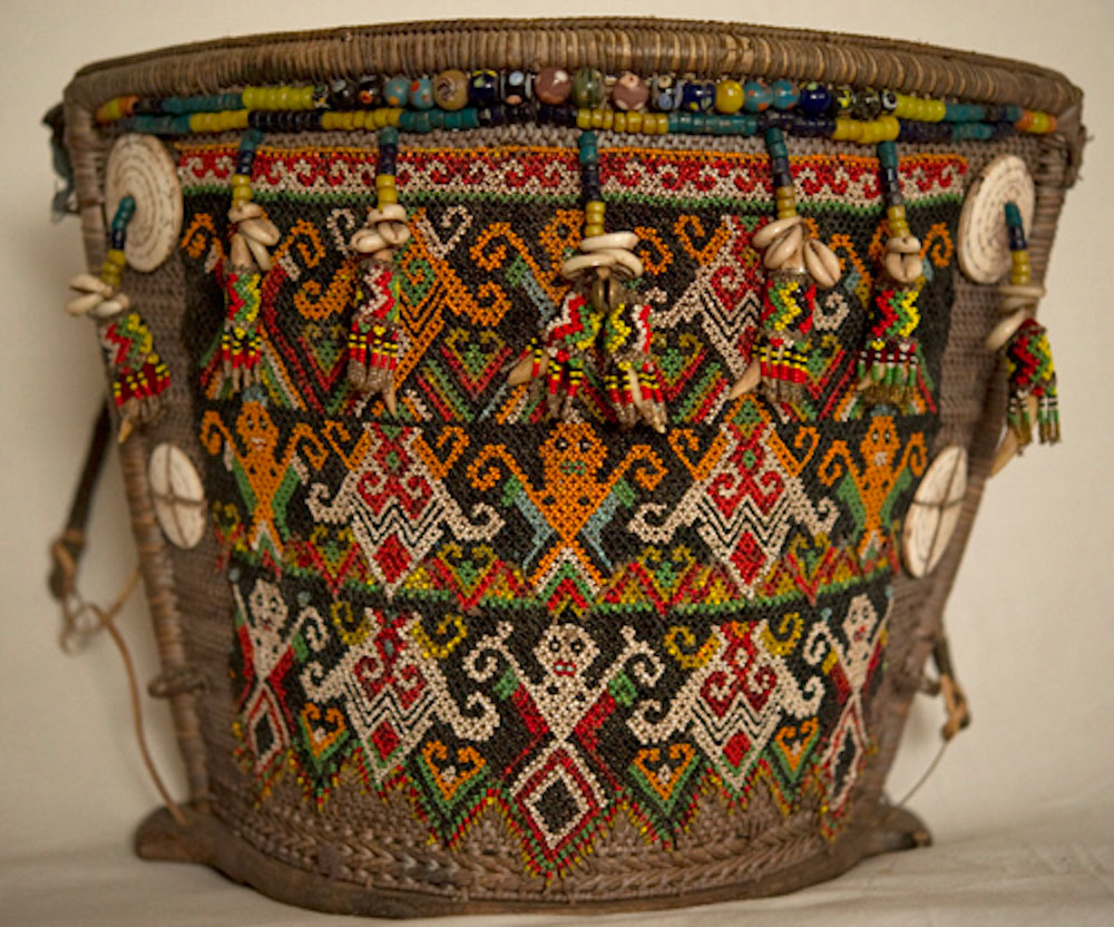 Dayaks carry their babies in baskets or carriers such as this one. The motifs on the beaded panel and the additional embellishments such as shells, claws etc are meant for the protection of the child. Courtesy the Wovensouls Collection, Singapore